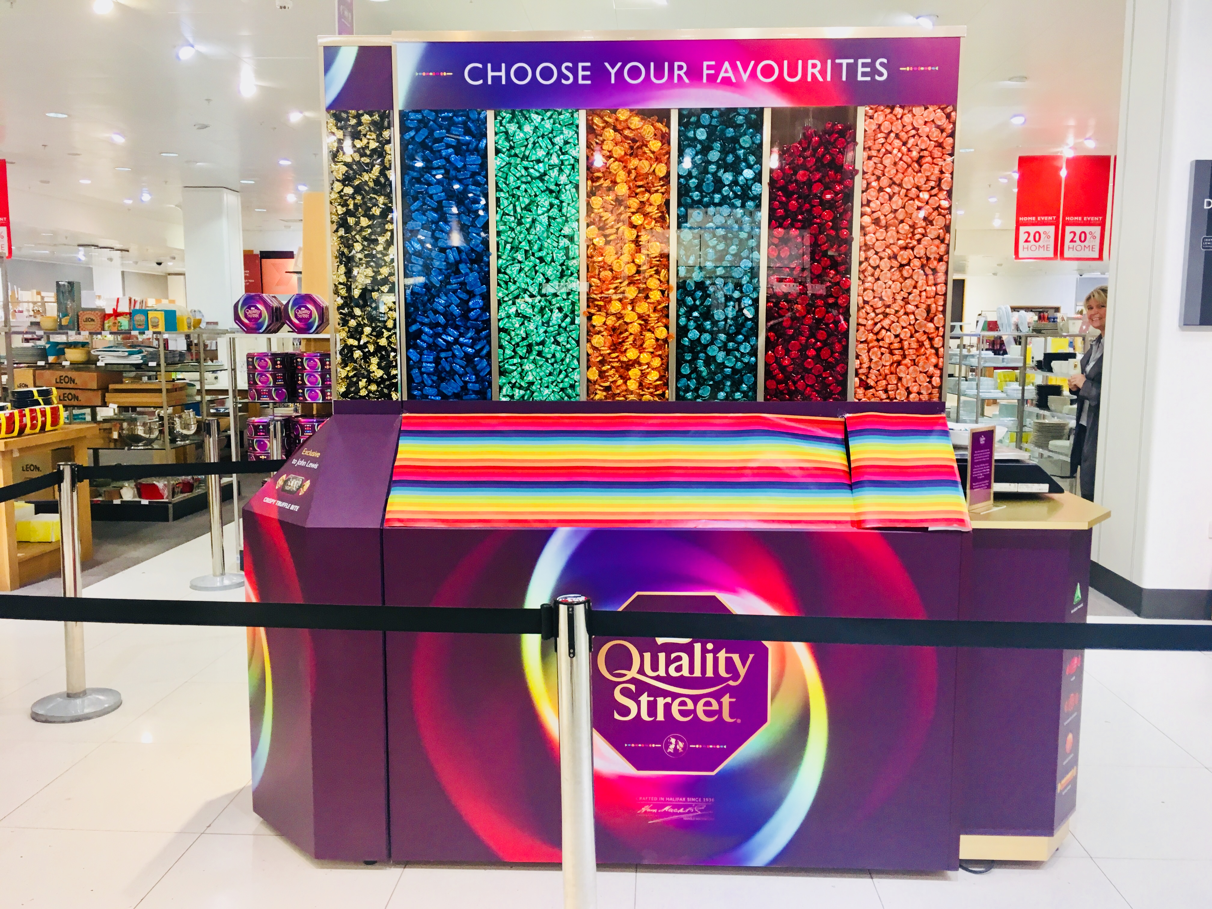 Quality Street ‘Pick your favourites’ thing, John Lewis Cardiff, September 2019